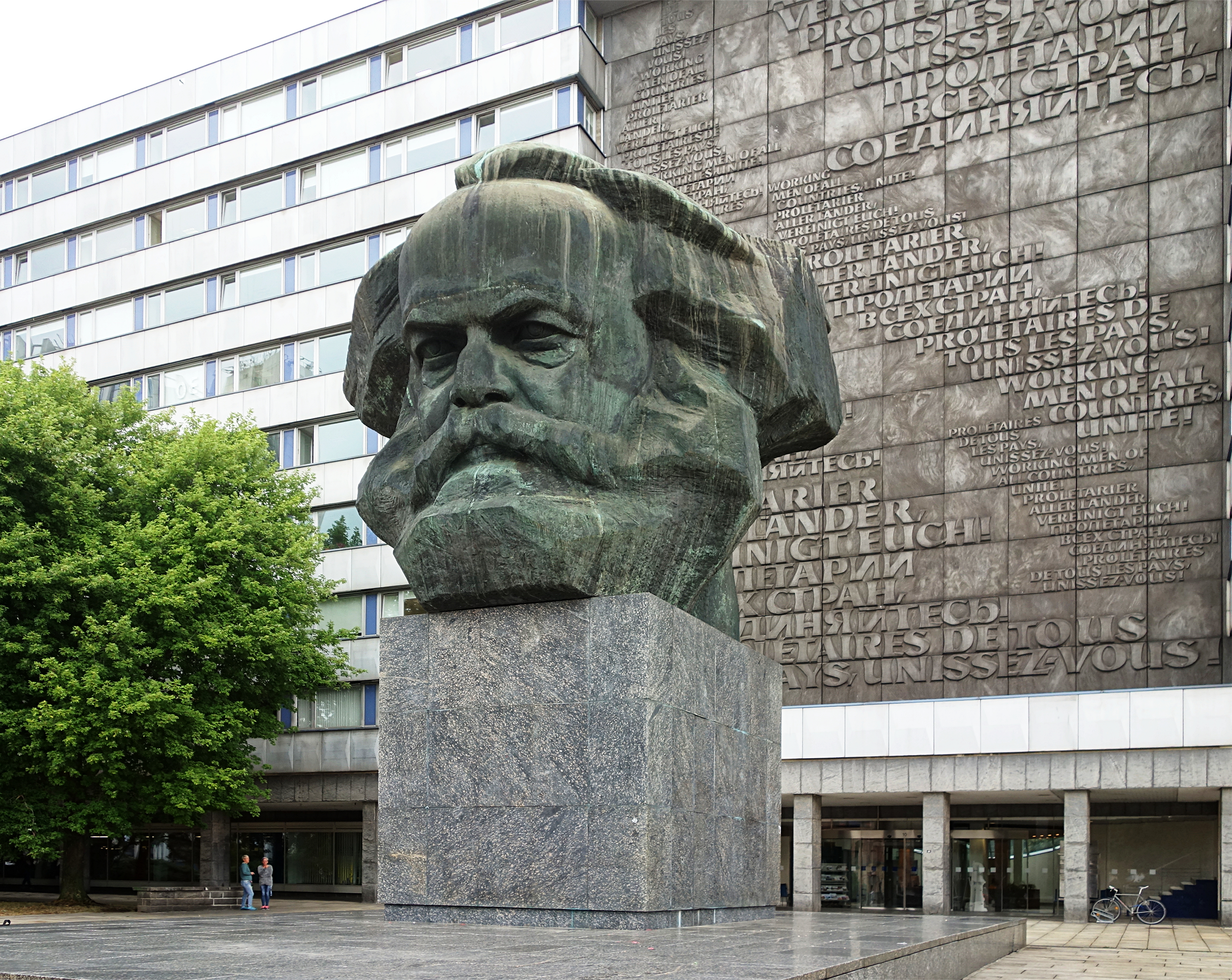 Karl Marx Monument in Chemnitz